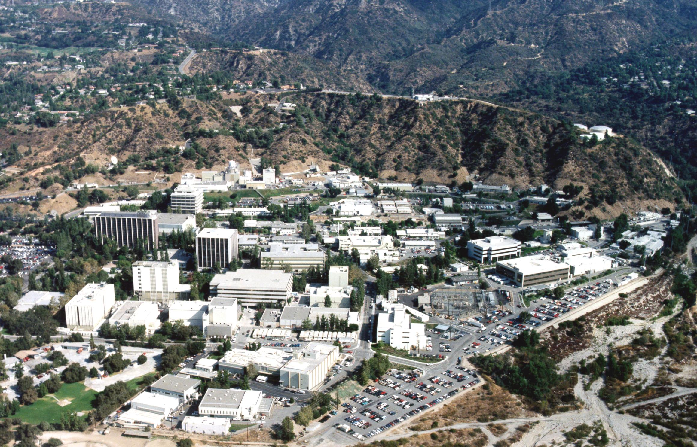 (P-39727cc): The Jet Propulsion Laboratory’s wind tunnels were located in a group of structures on the northern top side of the campus